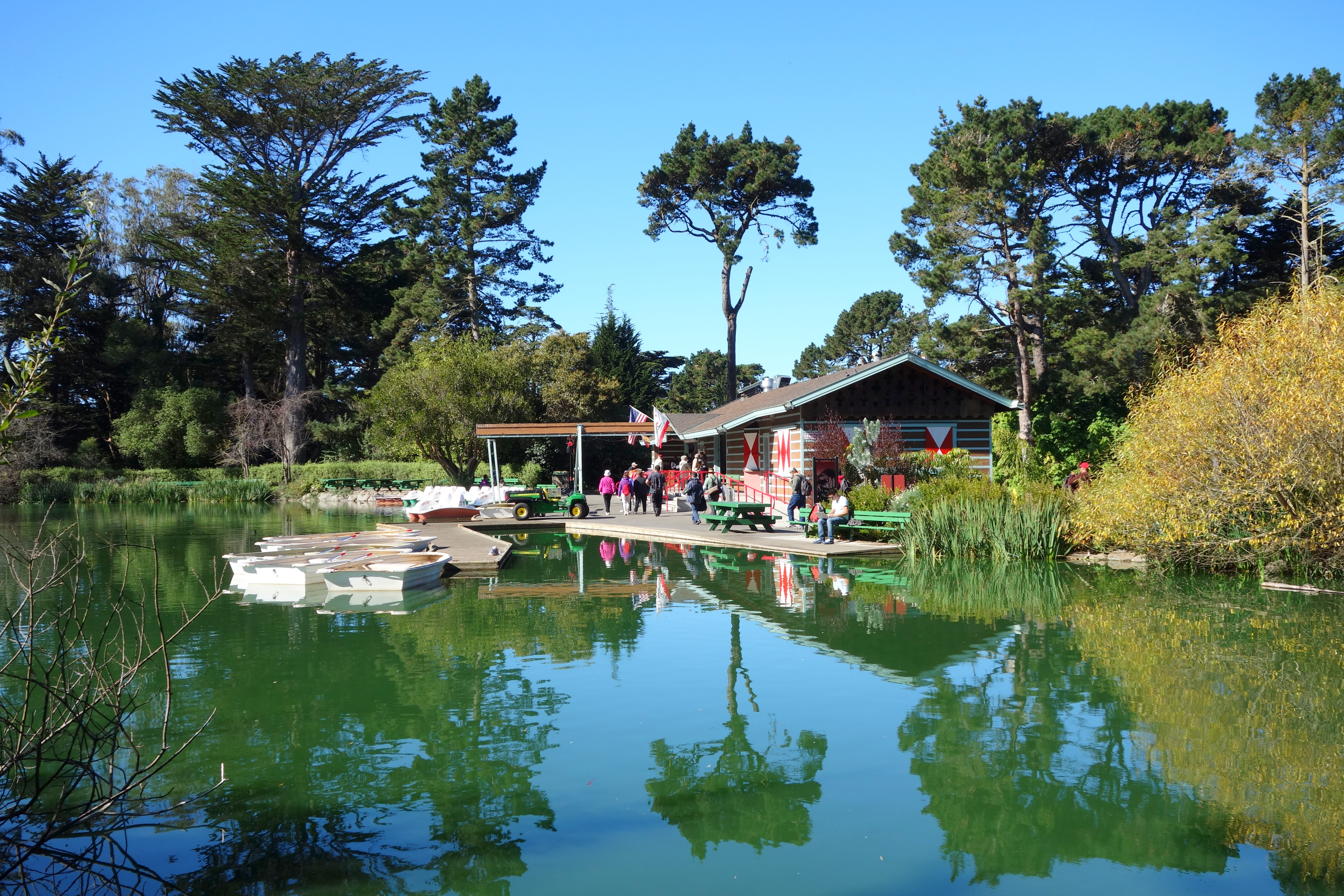 Stow Lake - Golden Gate Park, San Francisco, California, USA.